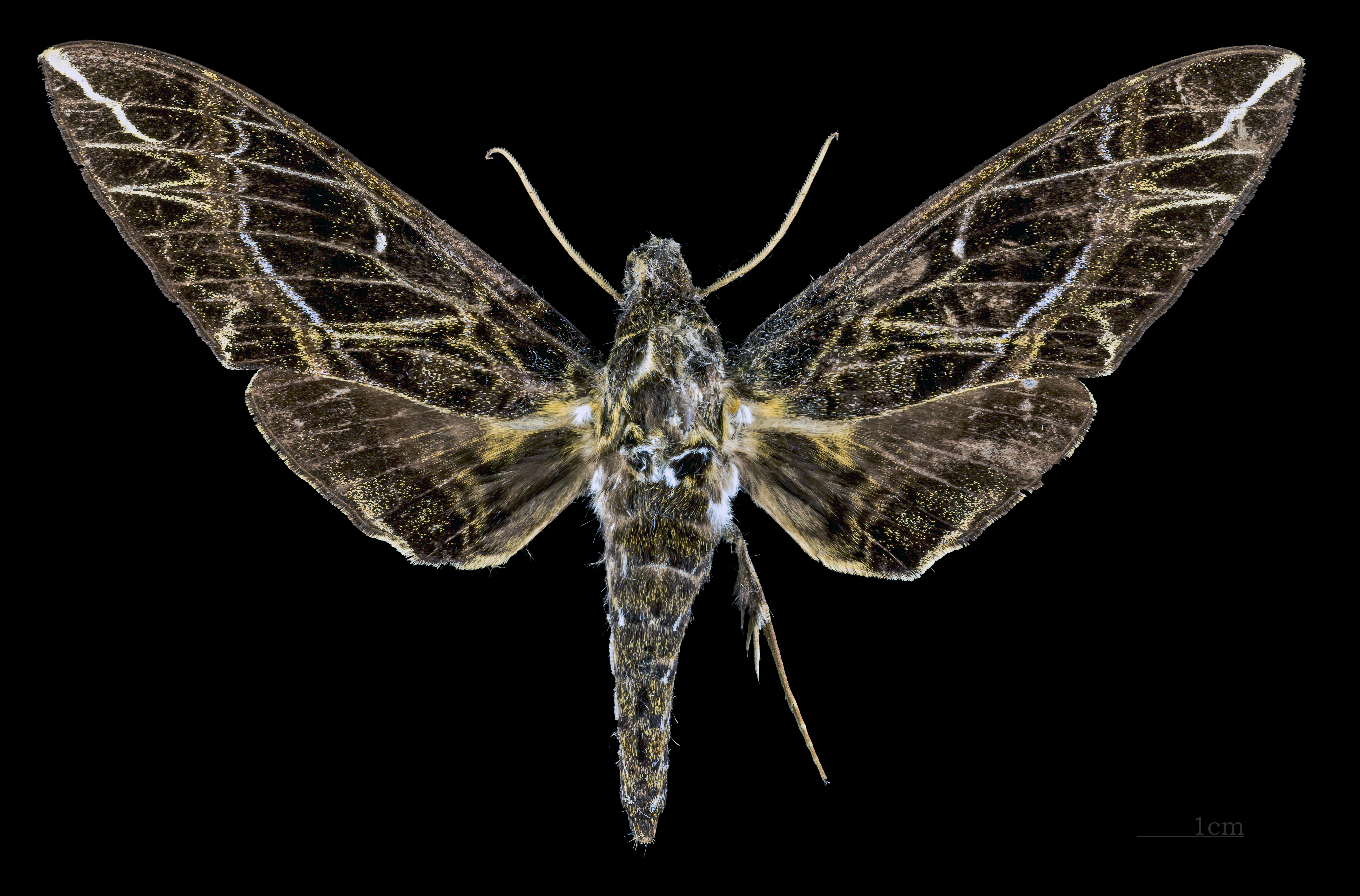 Apocalypsis velox - Dorsal side Collection of the Mathematician Laurent Schwartz